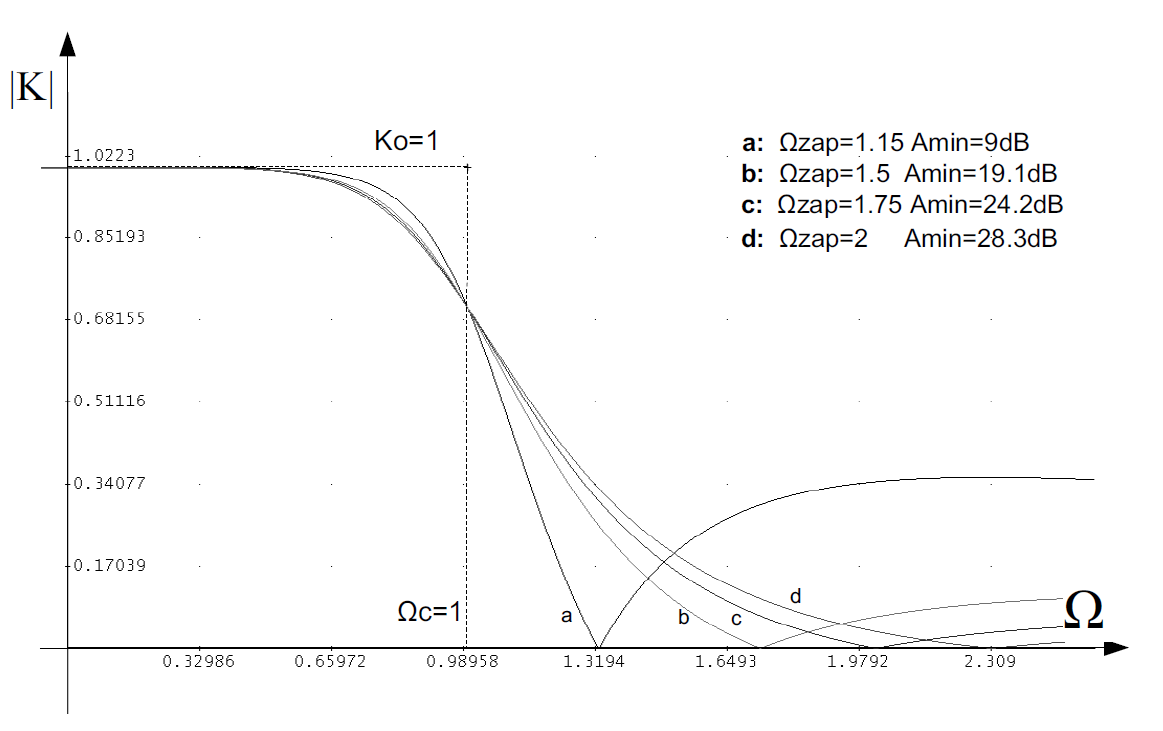 Group of characteristic gain vs frequency - Chebyshev II type filter – order 3.